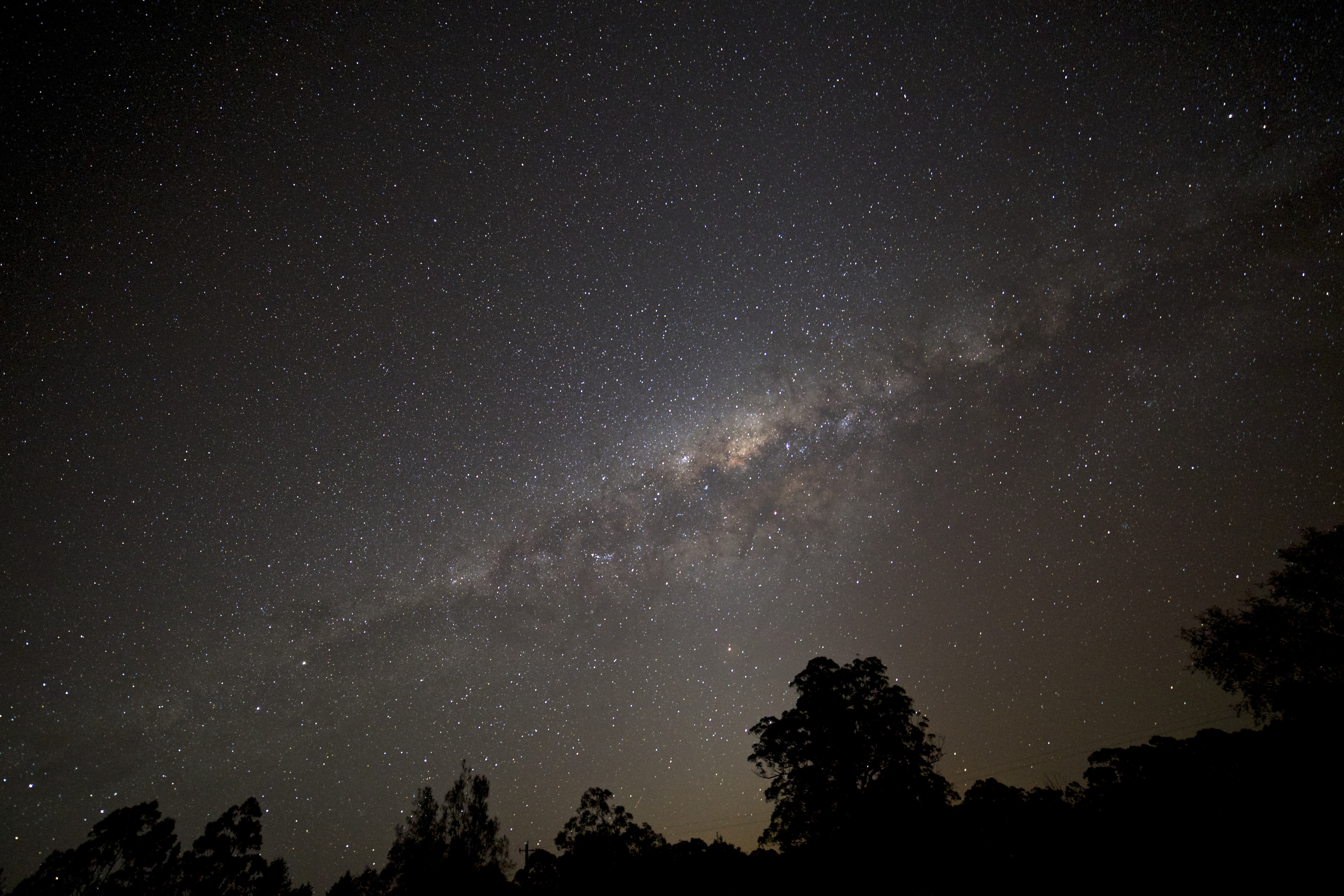 Milky way viewed south of Sydney Australia